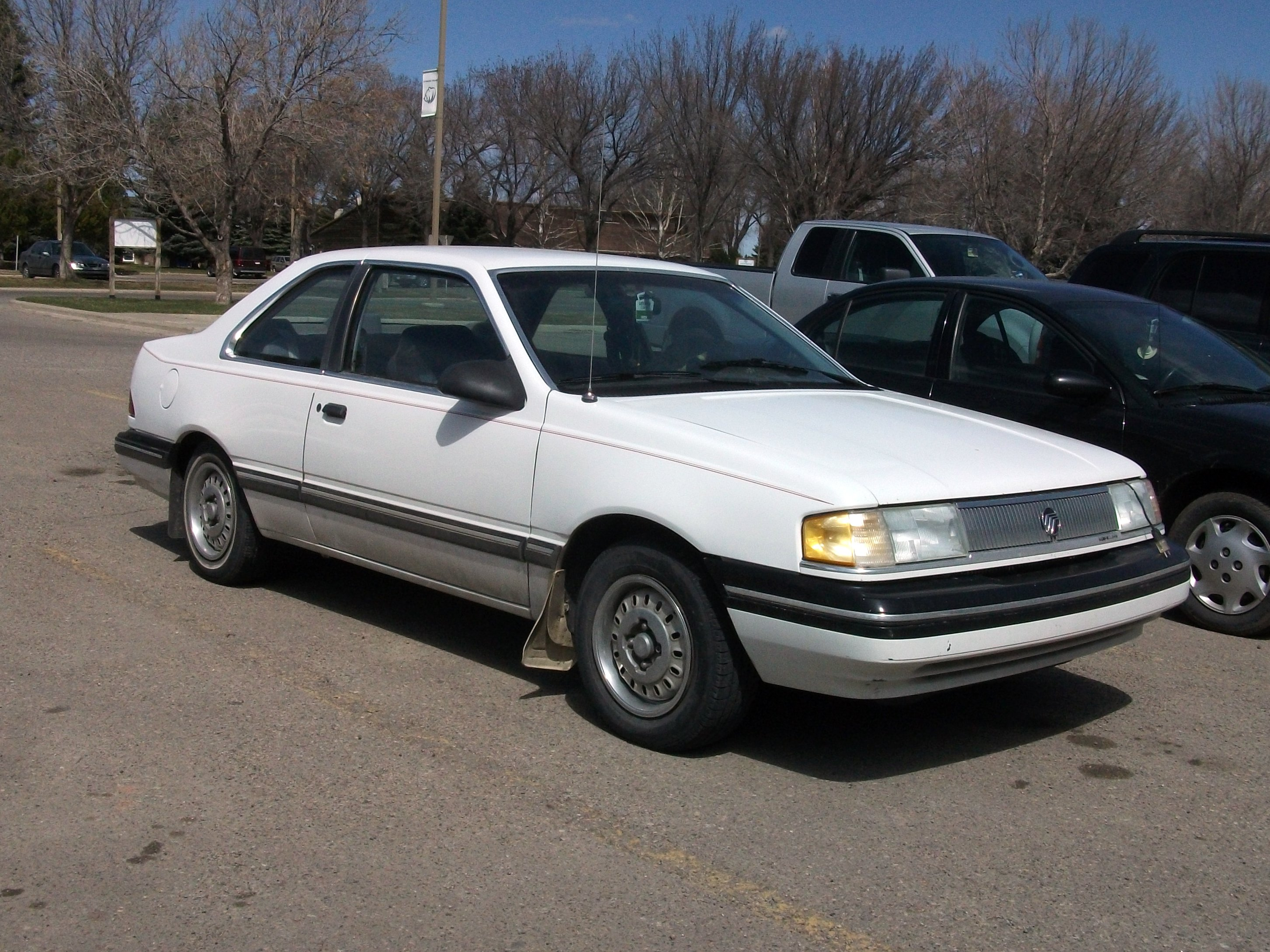 Base trim, two door, second generation Mercury Topaz L in white